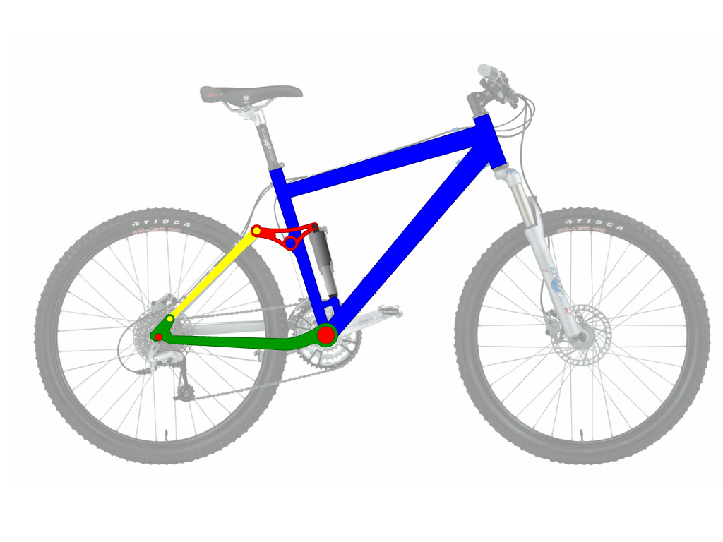 Represents a MoutainBike frame geometry, featuring a four bar linkage technology. Based on a Kona Kikapu bike